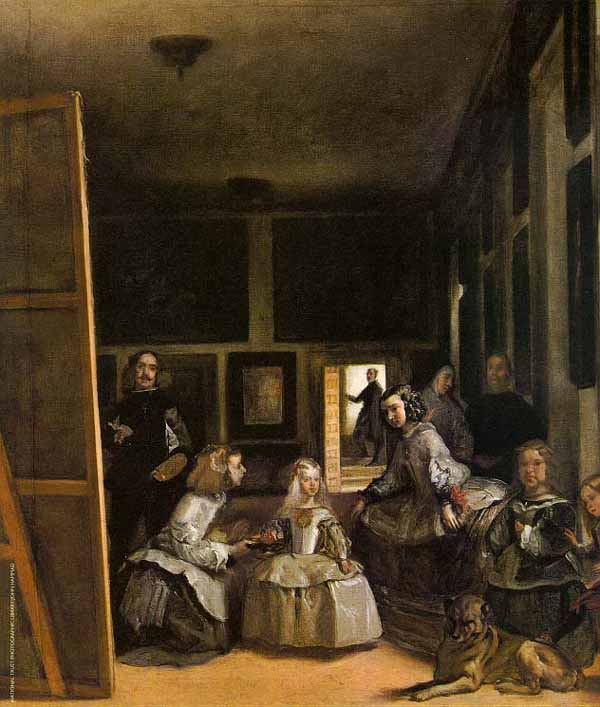 Las Meninas, by Diego Velázquez, at Kingston Lacy, Dorset; probably, a preparatory painting for the great painting at Prado Museum, Madrid